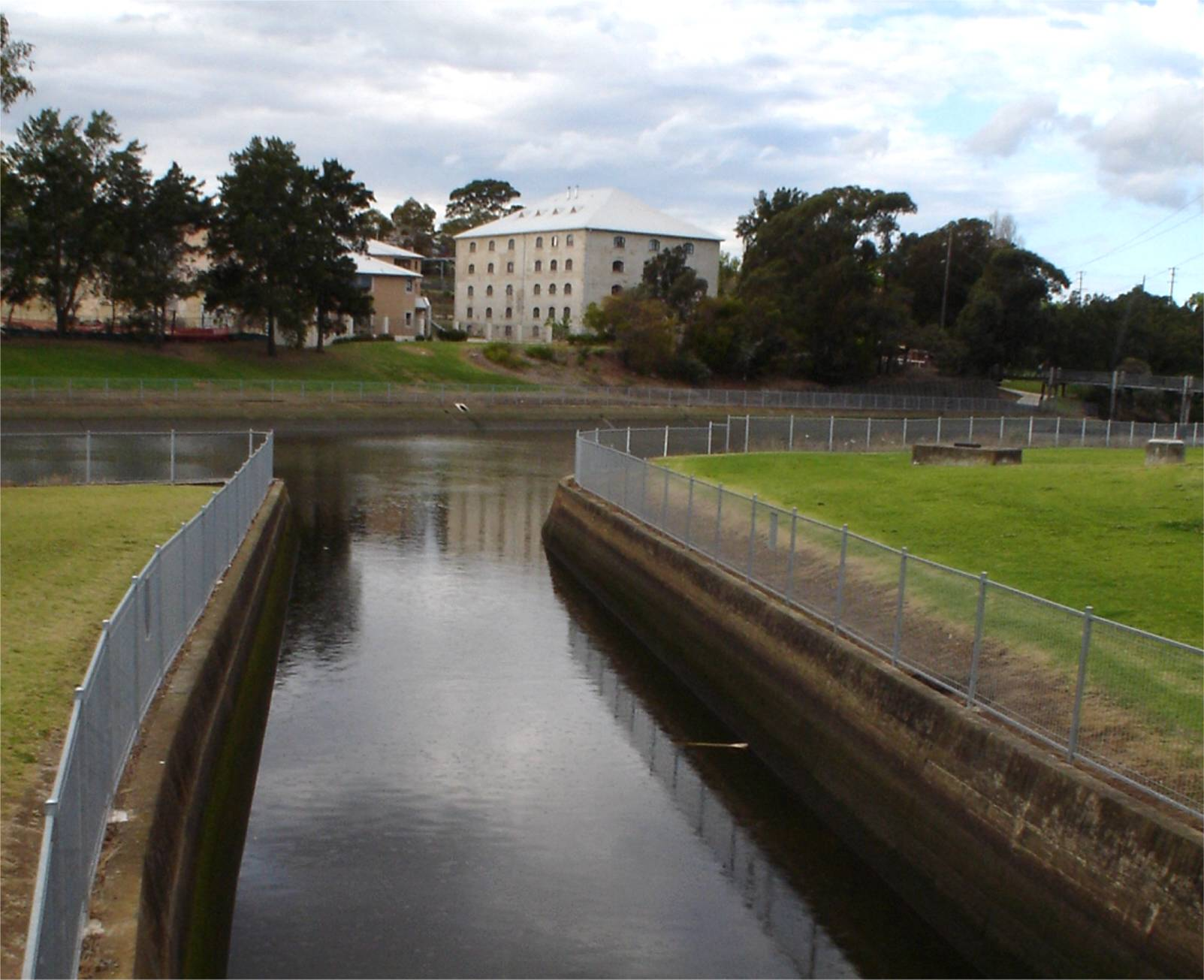 Photo taken by David Latimer (dlatimer) of Canterbury NSW. Released to Public Domain 22Sep2005